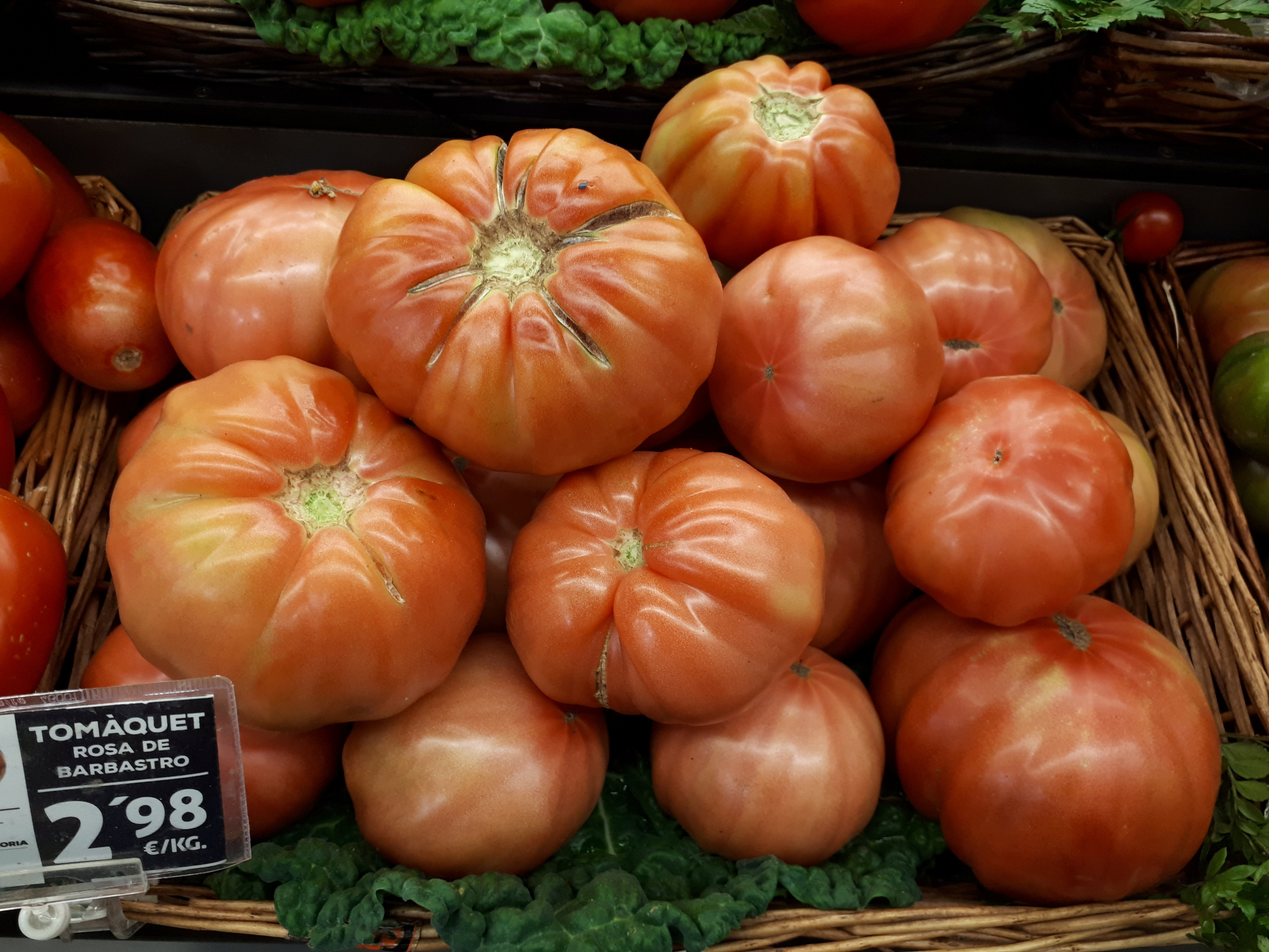 Rosa de Barbastro tomatoes